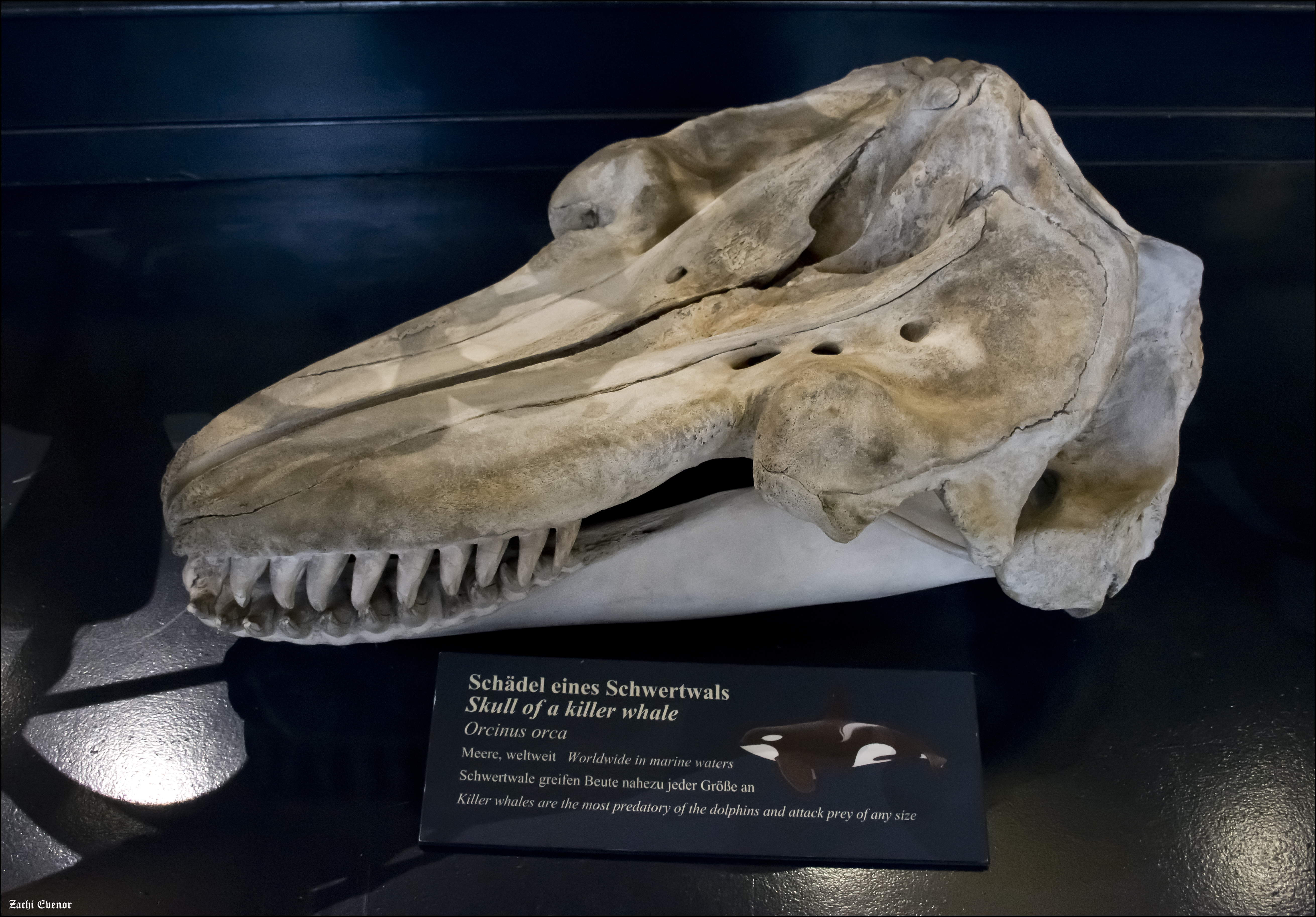 Killer Whale לווייתן קטלן Orcinus orca Vienna Natural History Museum, Austria 2014 המוזיאון להיסטוריה של הטבע, וינה, אוסטריה, 2014 Wien Naturhistorisches Museum This image was created by Zachi Evenor צחי אבנור and is released under Creative Commons CC-BY license. When using this image credit it to Zachi Evenor (in Hebrew for use in Israel: צחי אבנור). Please avoid using these images in an abusive or offensive manner. Please link to the original image on Wikimedia Commons or Flickr if possible. For more free to use images visit Category:Photographs by Zachi Evenor. For non-free images visit Flickr: . Enjoy this image :)